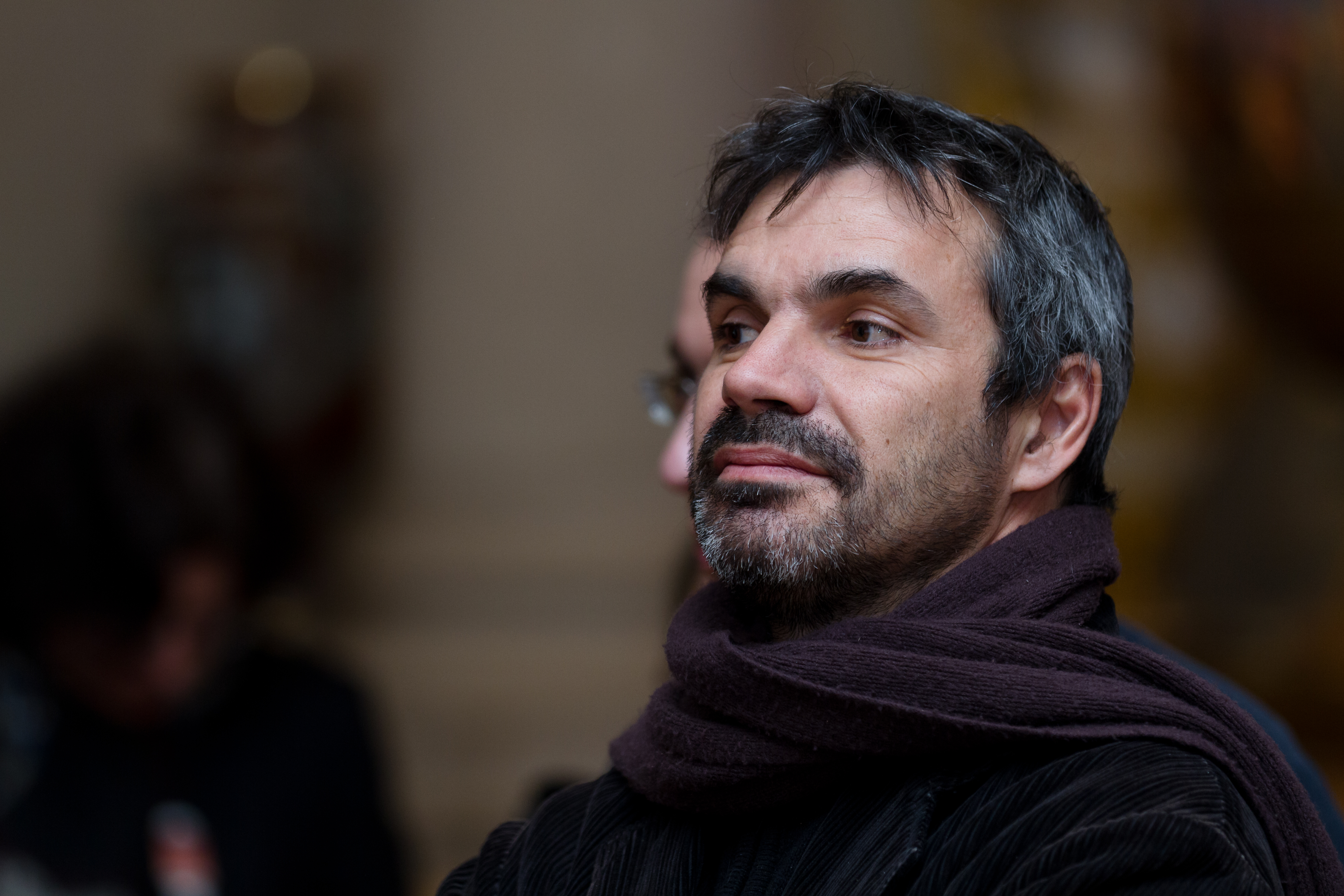 Framaka at the Award Ceremony of Wiki Loves Monuments 2012 in France.